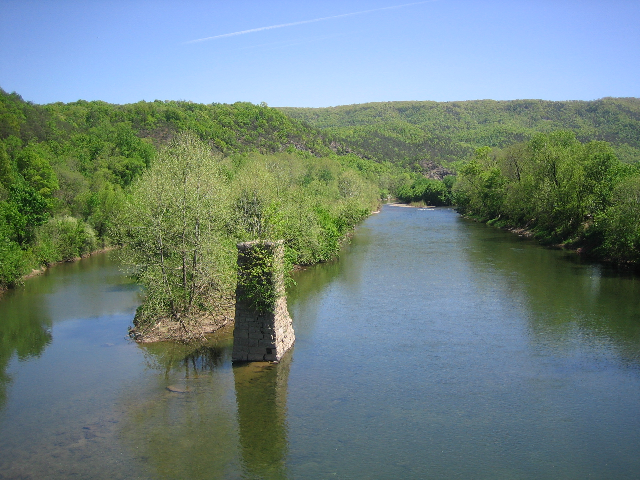 The South Branch Potomac River from the Springfield Pike (County Route 3) Bridge at Millesons Mill, West Virginia, United States.